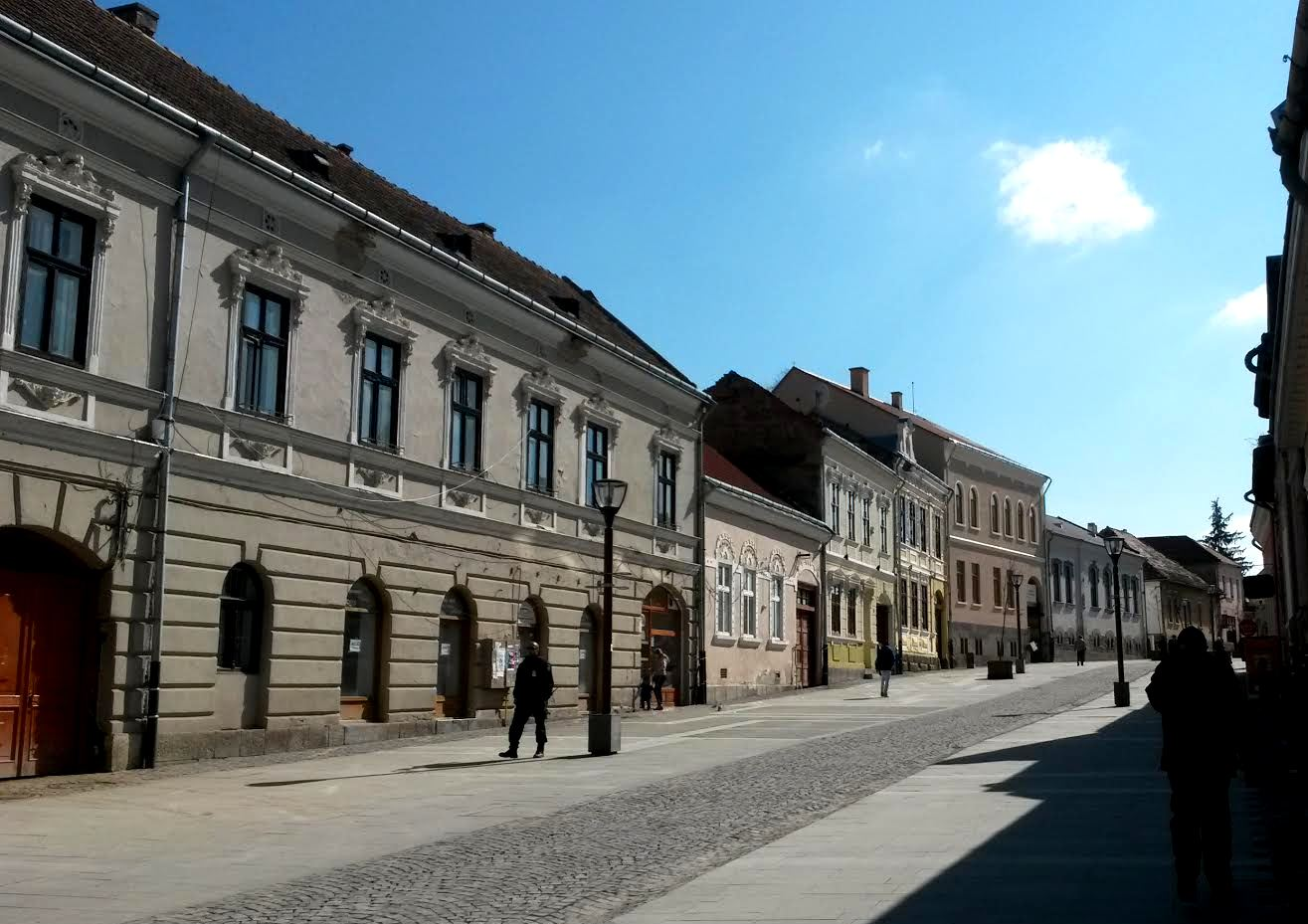 Petődi Street, Csíkszereda / Miercurea Ciuc